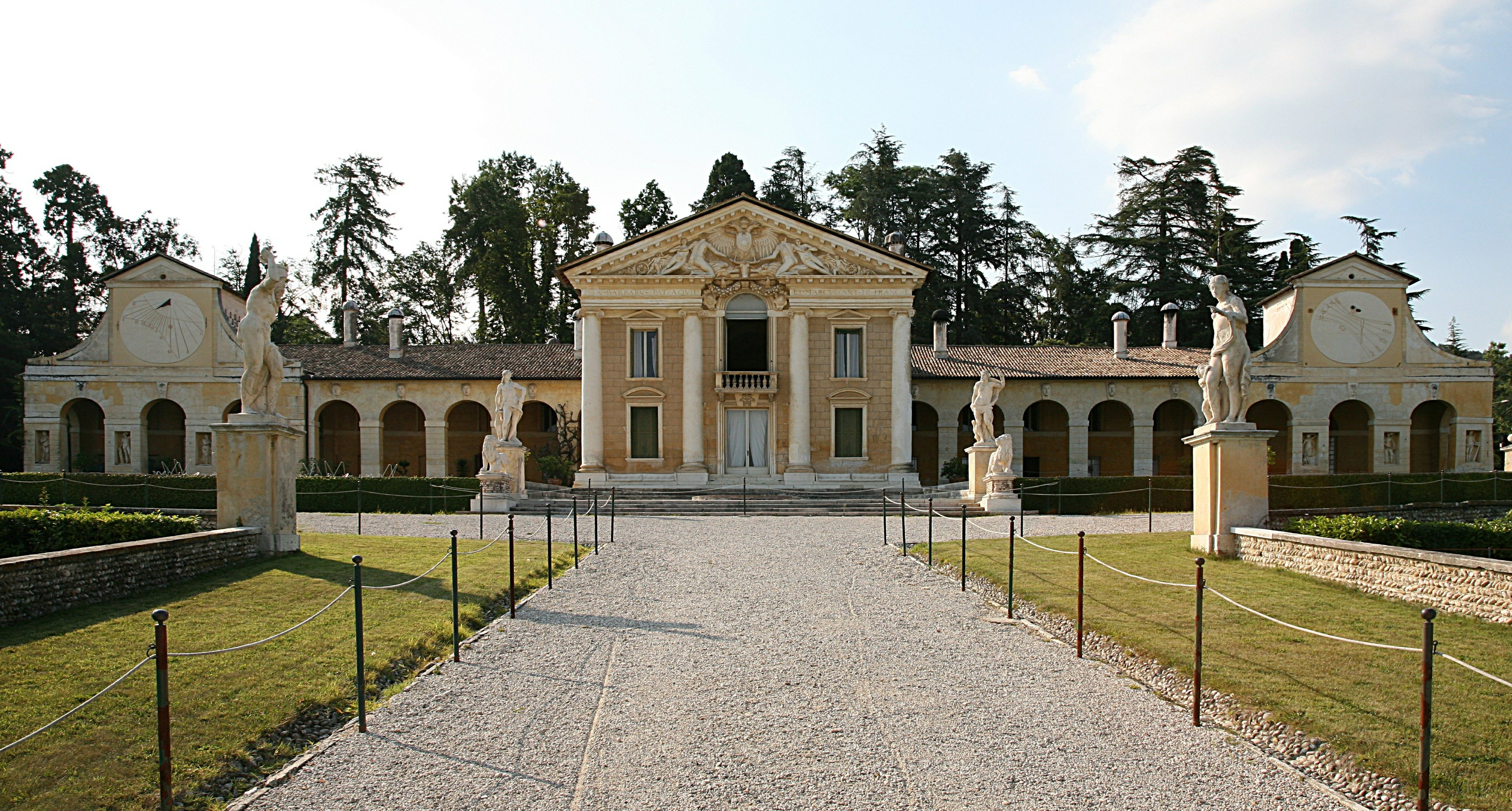 Villa Barbaro at Maser by Andrea Palladio.